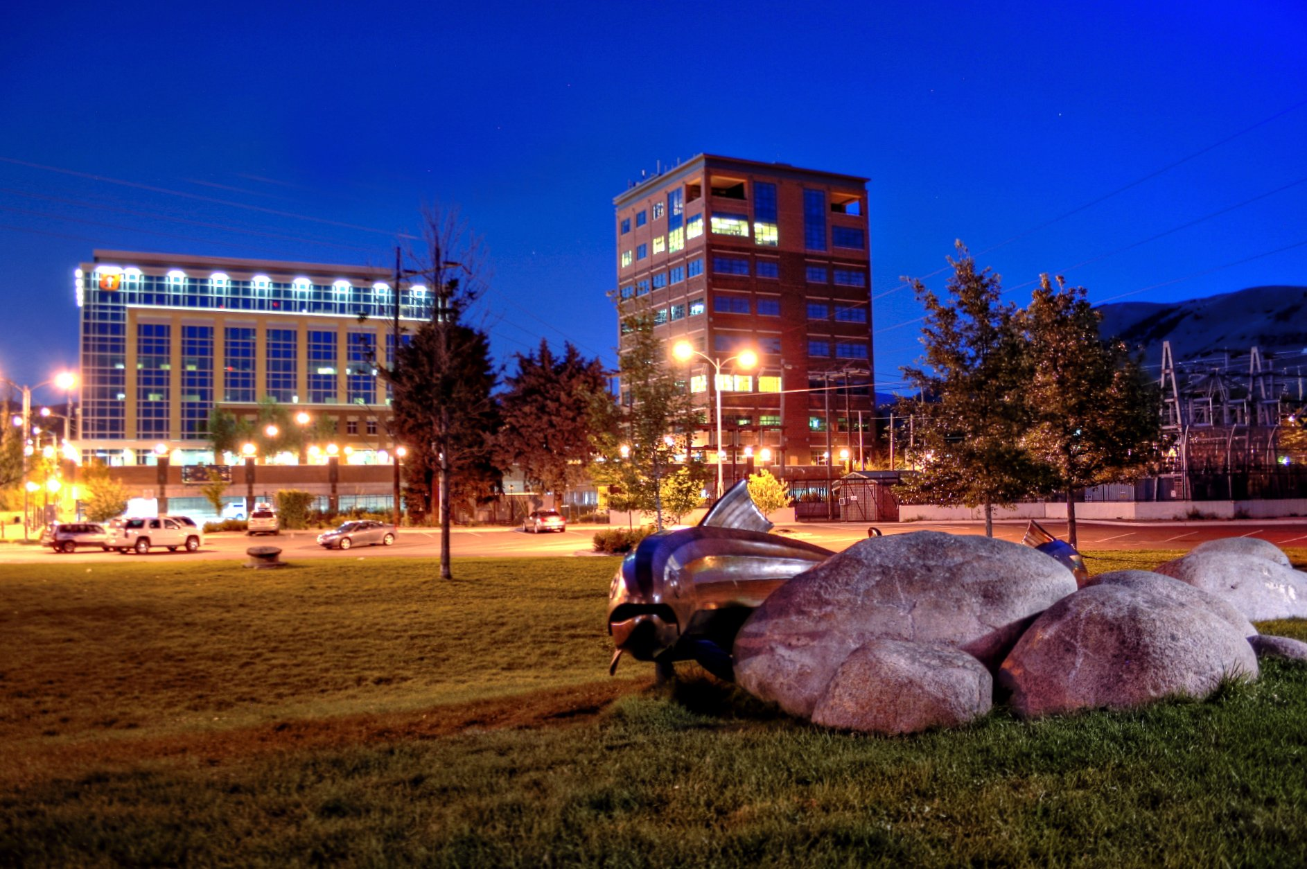 Downtown Missoula at night